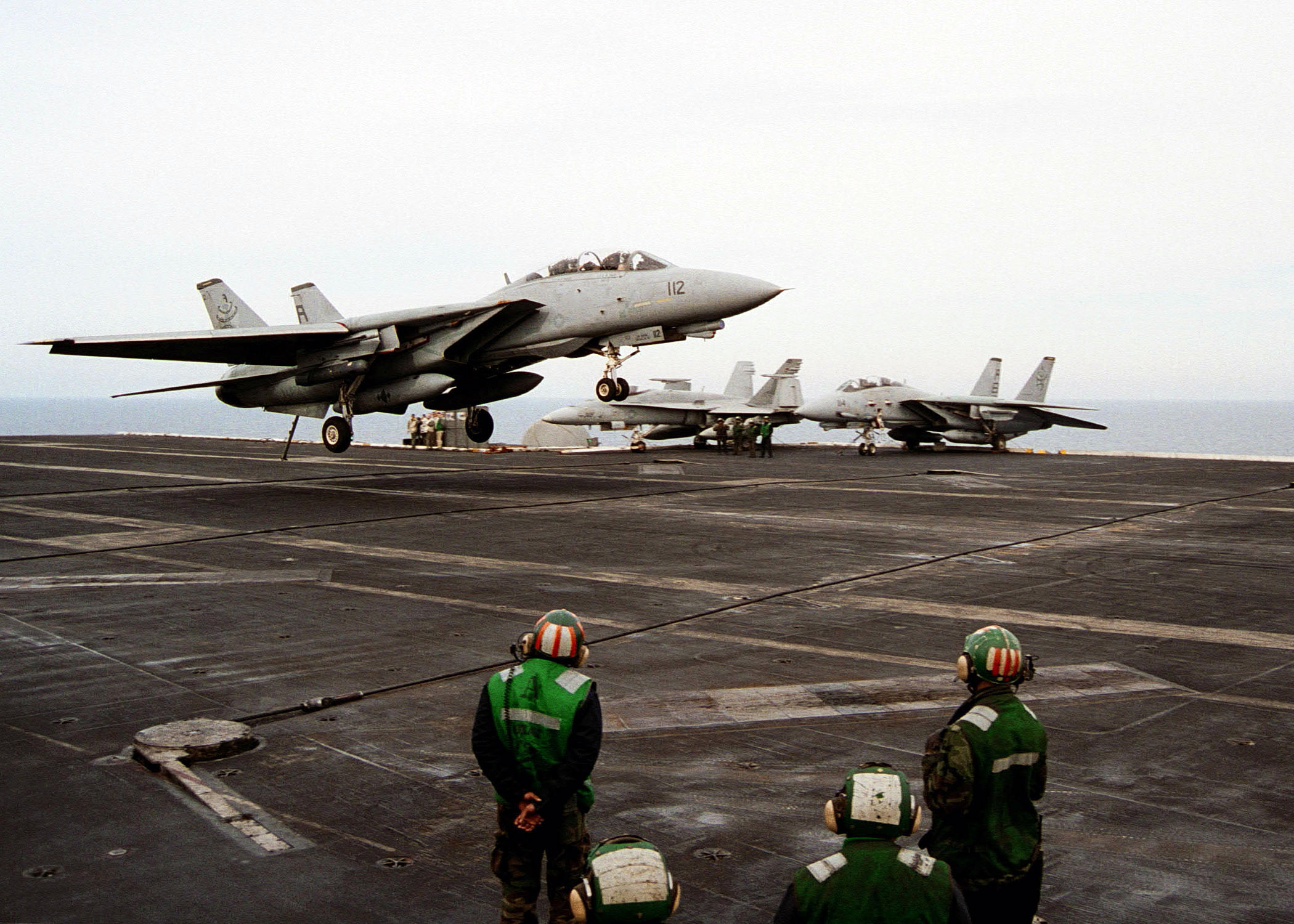 At sea aboard USS Theodore Roosevelt (CVN 71) Mar. 12, 2002 -- An F-14 Tomcat jet fighter assigned to the "Diamondbacks" of Fighter Squadron One Zero Two (VF-102) descends to make an arresting gear landing on the flight deck. The aircraft carrier is operating in the Mediterranean Sea after conducting combat missions in support of Operation Enduring Freedom. U.S. Navy photo by Photographer's Mate 3rd Class Sabrina A. Day. (RELEASED)